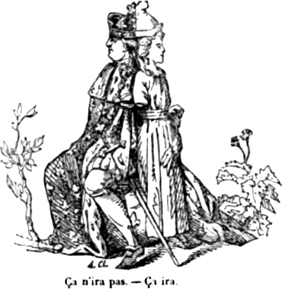 The French Republic vs. the Monarch: “Ça ira, ça n'ira pas”.